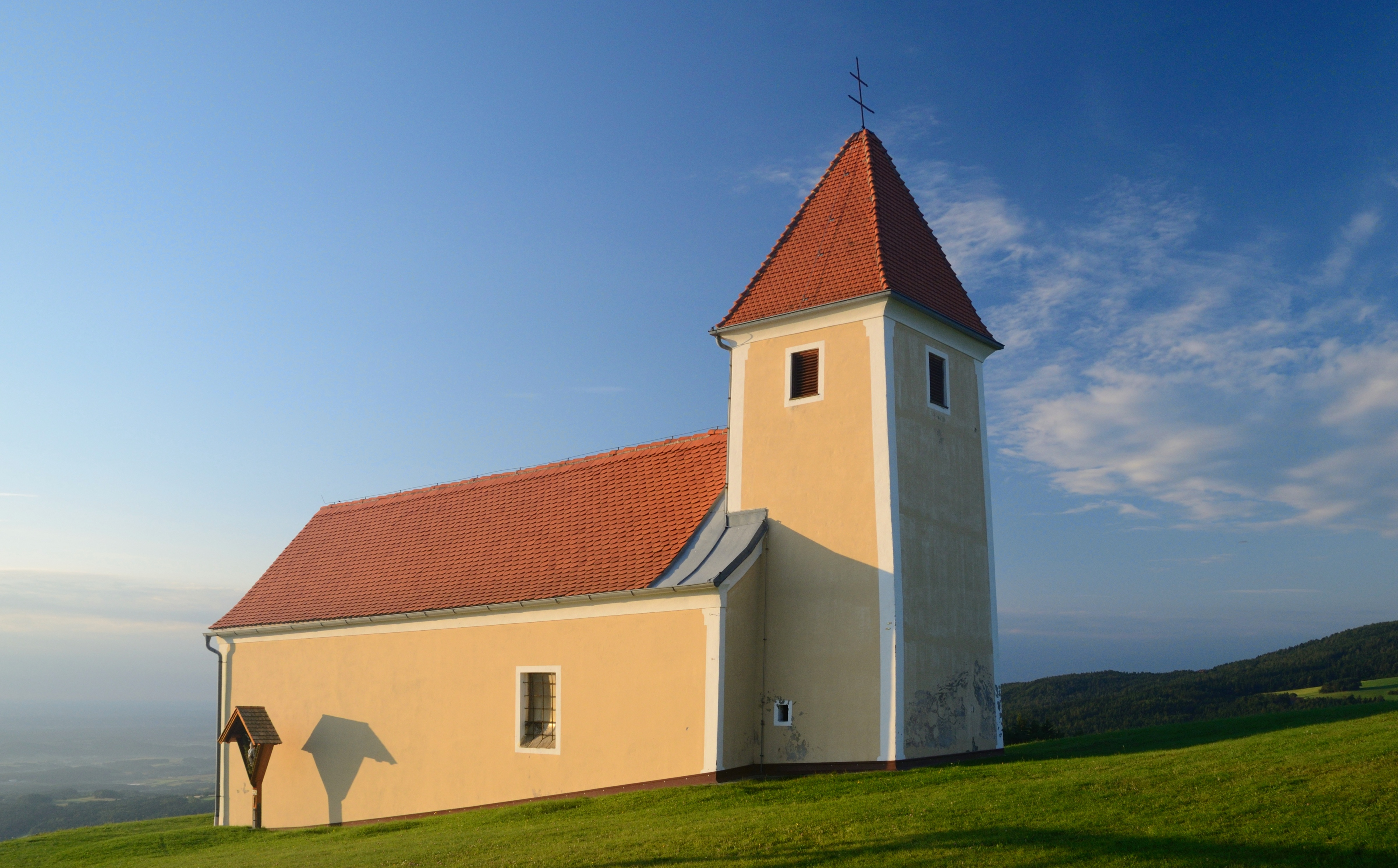 Small church St.Pankrazen on the eastern slope of Masenberg in Styrian village Stambach, near Hartberg. Early morning light.